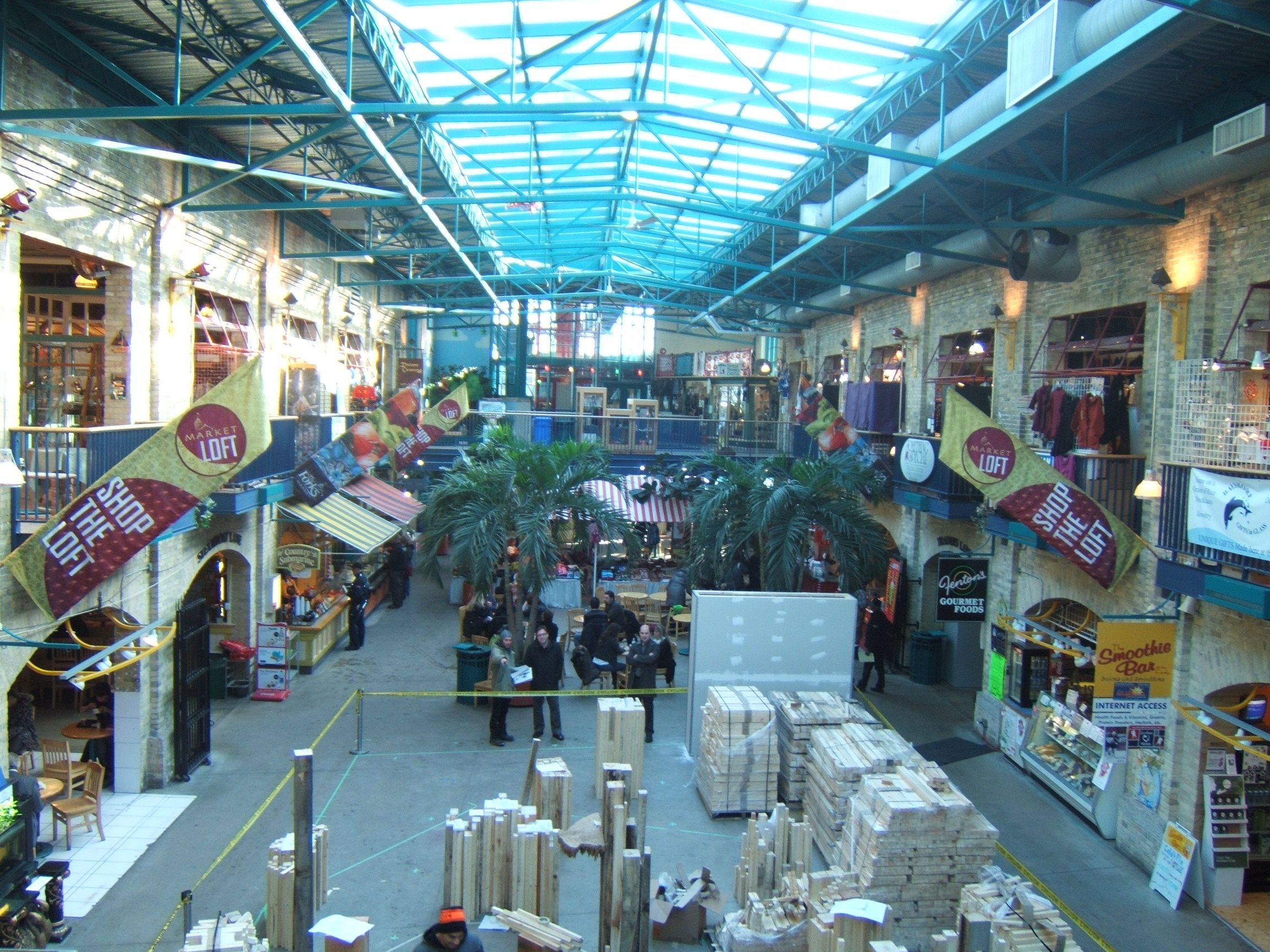 Looking inside The Forks.